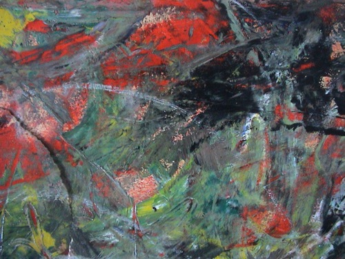 Abstract painting from childhood of the artist Christian W. Staudinger